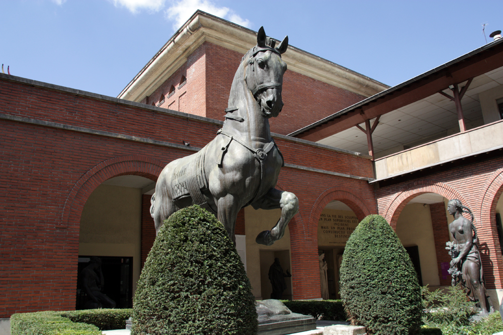 Musee Bourdelle entrance park